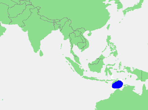 Timor Sea